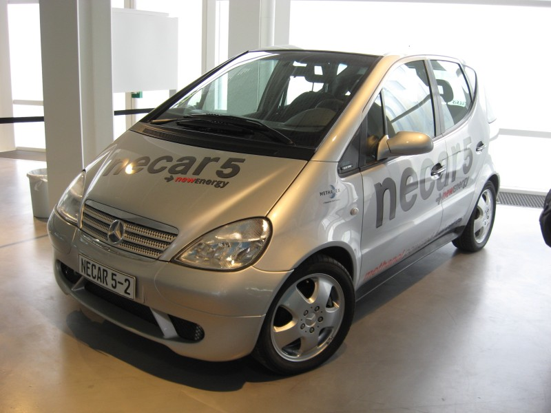 Necar 5